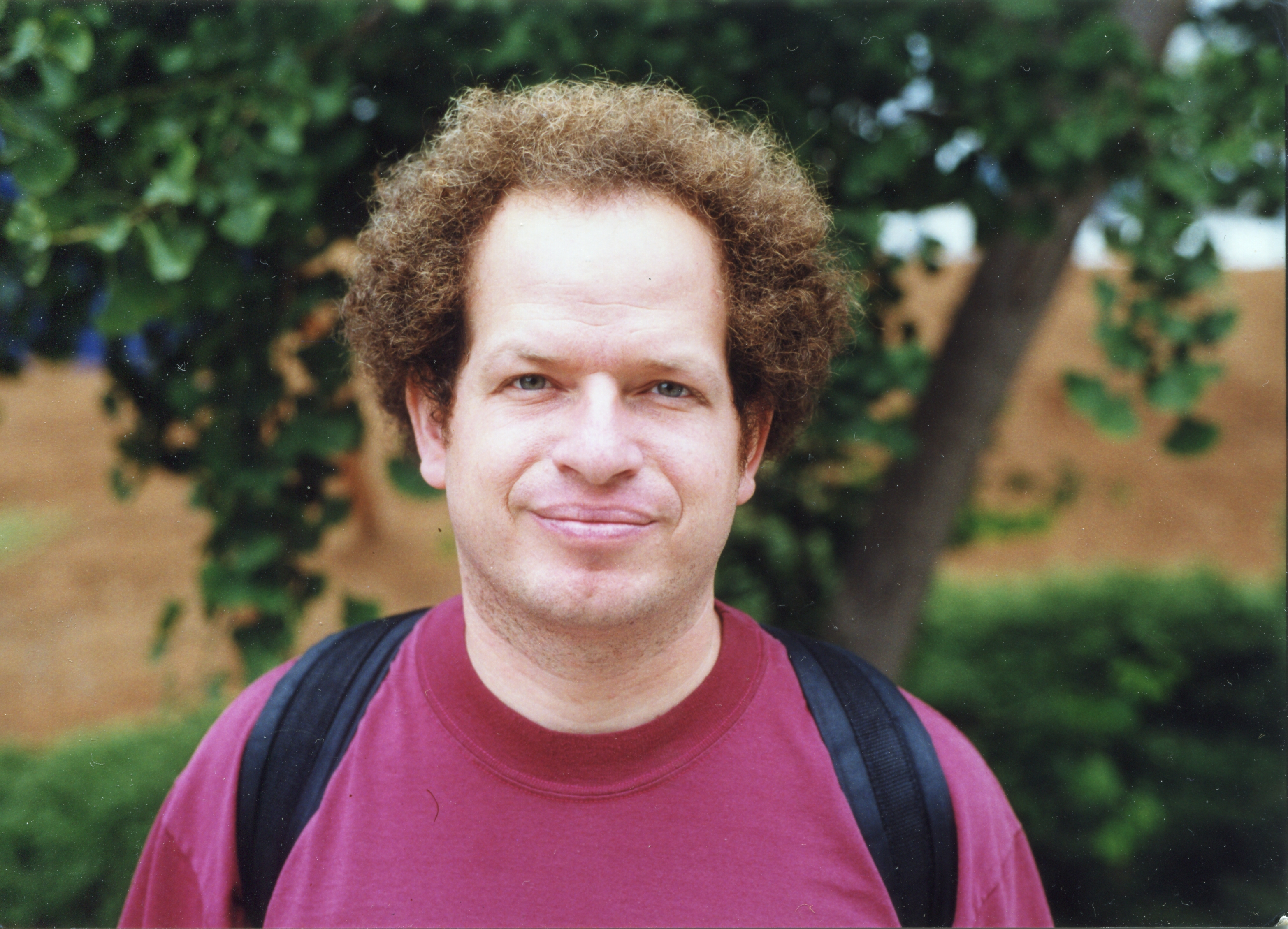 Dror Bar-Natan in Berkeley